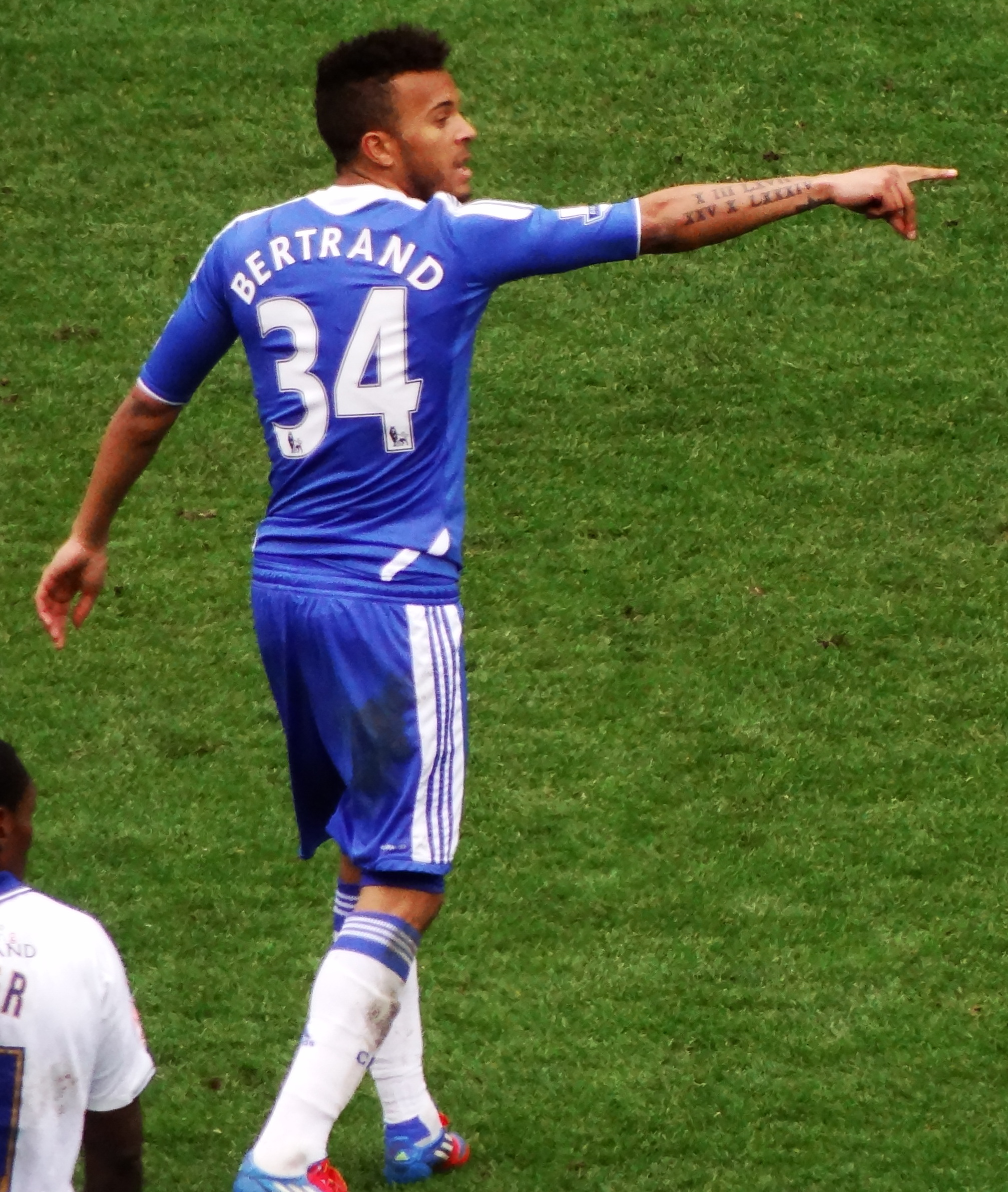 Ryan Bertrand